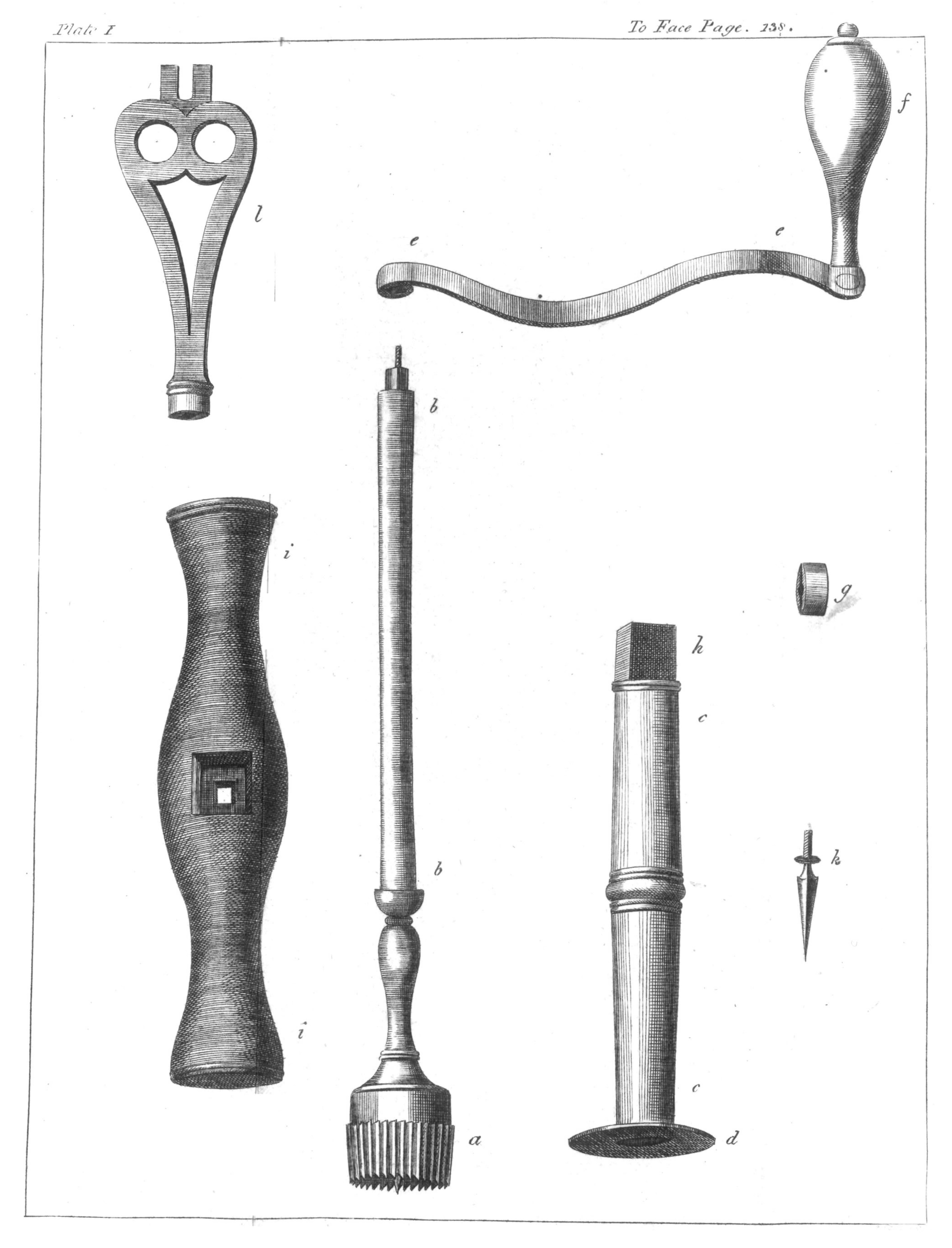 "Description of an Instrument for Performing the Operation of Trepanning the Skull, with More Ease, Safety and Expedition, than Those Now in General Use", Transactions of the Royal Irish Academy, Vol. 4 (1790-1792), pp. 119-139.